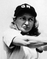 Title: Gertrude "Tiby" Eisen Description: "Tiby" Eisen swings a baseball bat. Creator: Unknown Medium: Black and white photograph Date: 1945 Collection: American Jewish Historical Society Photography Collection Repository: American Jewish Historical Society Rights Information: No known copyright restrictions; may be subject to third party rights. For more copyright information, click here. See more information about this image and others at CJH Digital Collections. To inquire about rights and permissions, or if you have a question regarding the collection to which the image belongs, please contact the Reference Department of the American Jewish Historical Society by email. Digital images created by the American Jewish Historical Society at the Center for Jewish History.